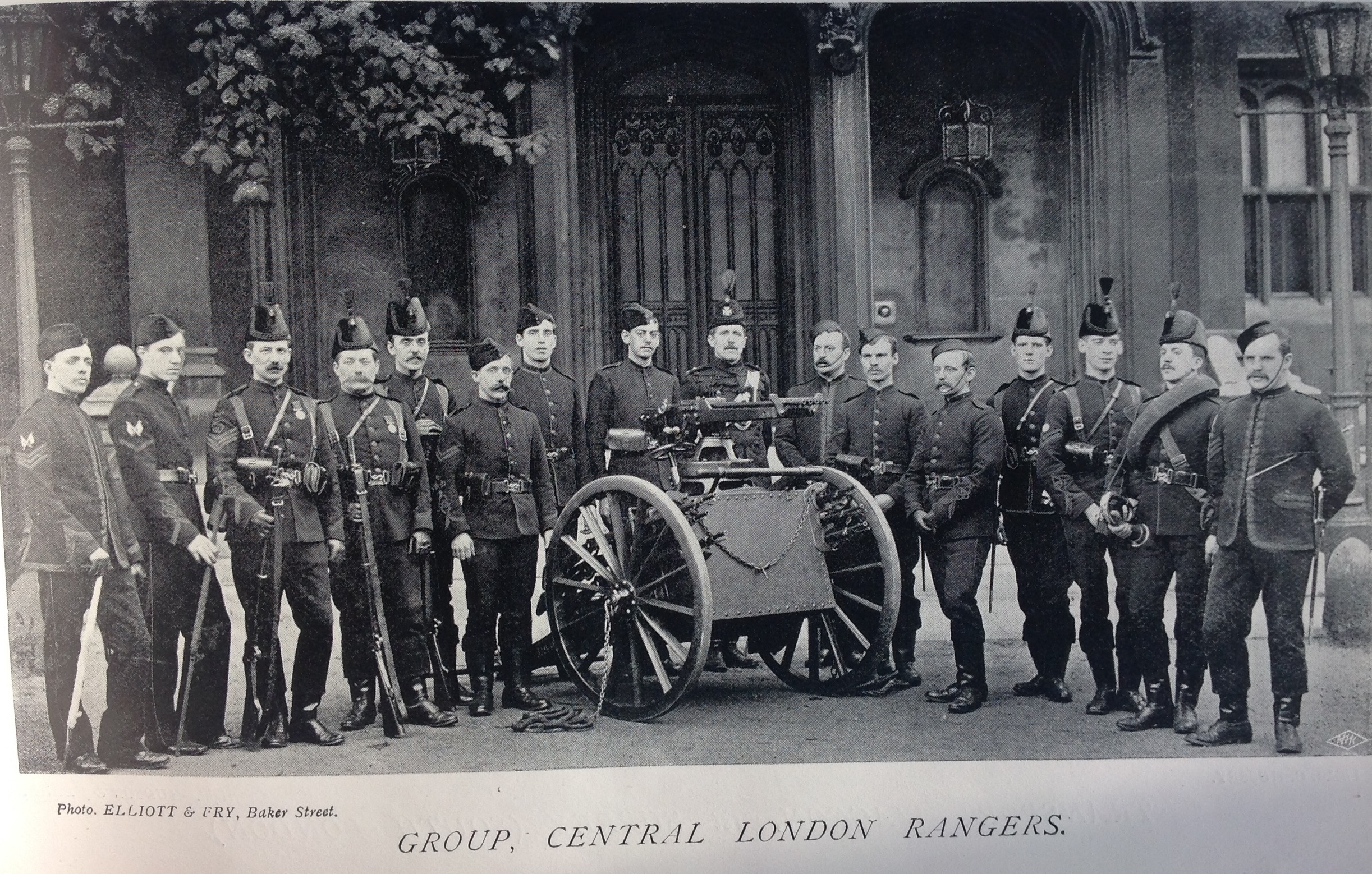 Group of men of the 22nd Middlesex Rifle Volunteers (Central London Rangers), from the Navy and Army Illustrated 1897